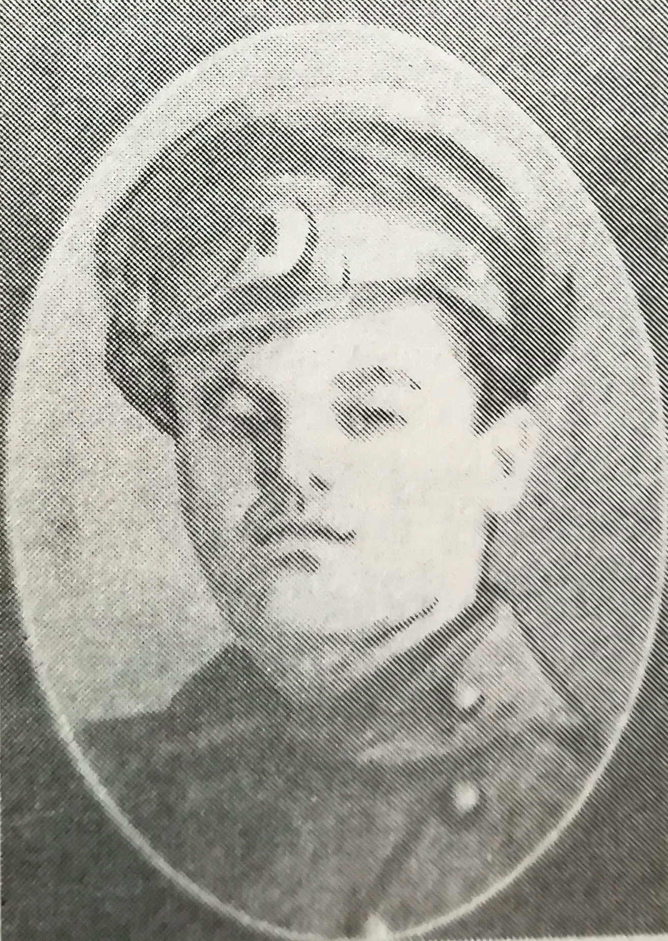 Romanian politician Anatolie Moraru, member of the Parliament of the Moldovan Democratic Republic - (1917-1918).